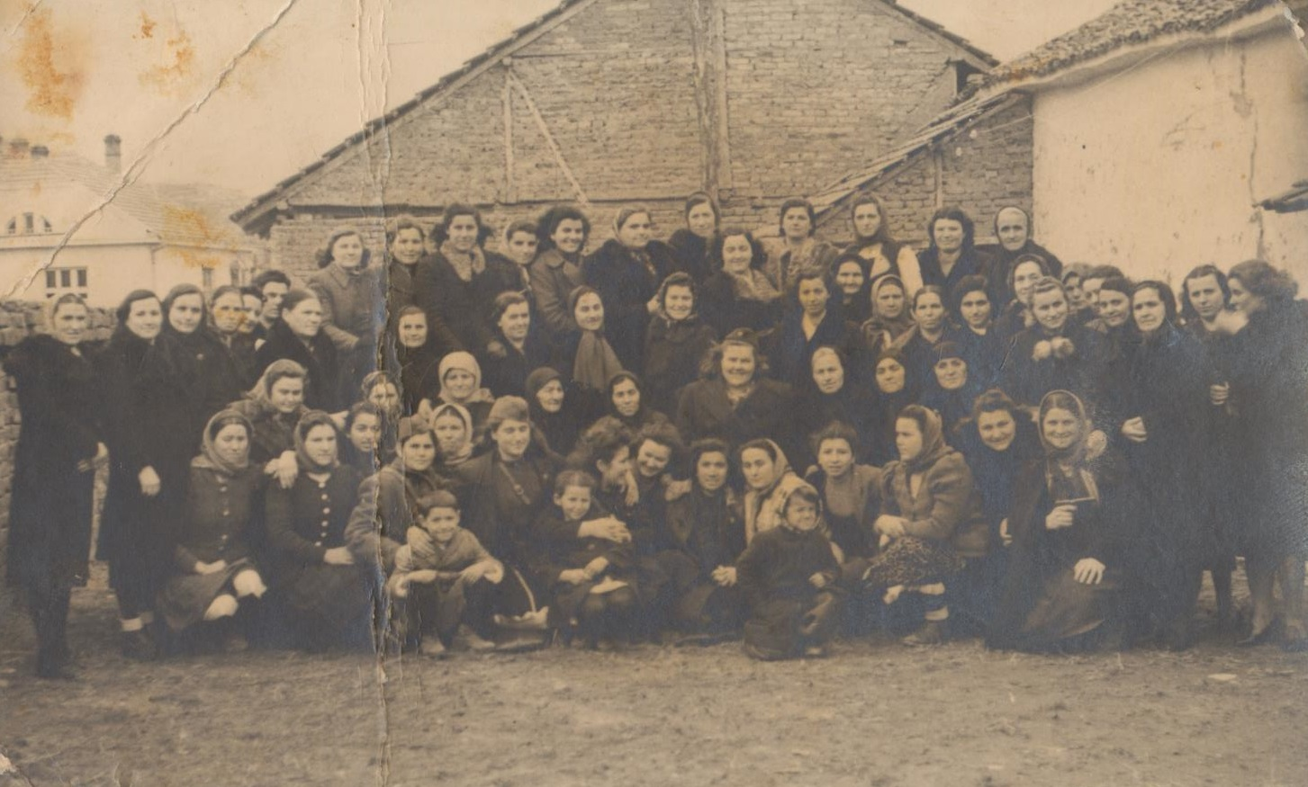 Meeting of antifascist union of women in Pirot, 1944